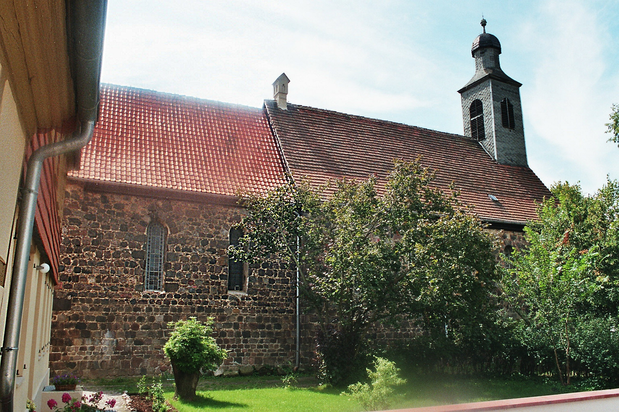 Burg (bei Magdeburg), St. Peter church